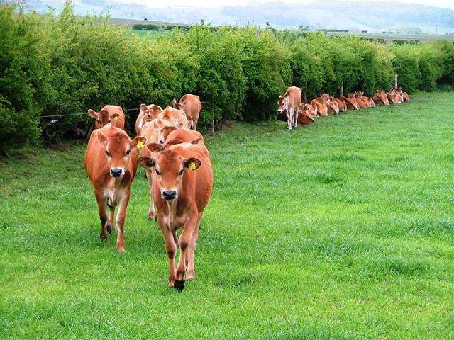 Pasture, Low Moor Lane. These young cows were huddled together in the lee of the hedge and immediately got up to investigate me in the time it took to get my camera out.